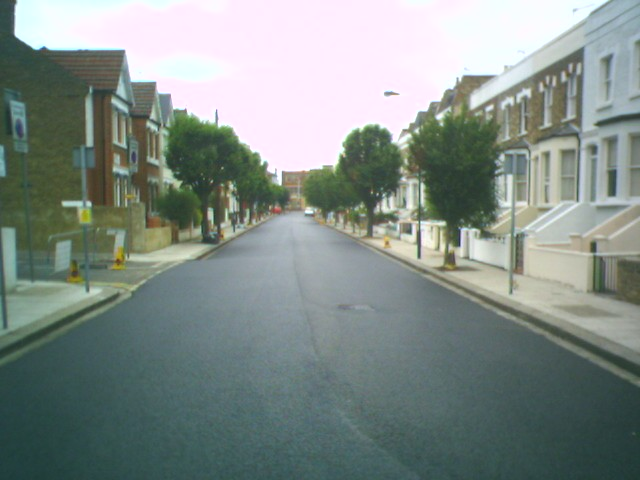 I took this photo whilst my street (in London) was in the middle of being resurfaced. It shows a newly resurfaced road without any markings. Sorry about the sky - I took it on my phone :) See also: Image:Photo of road being resurfaced.jpg